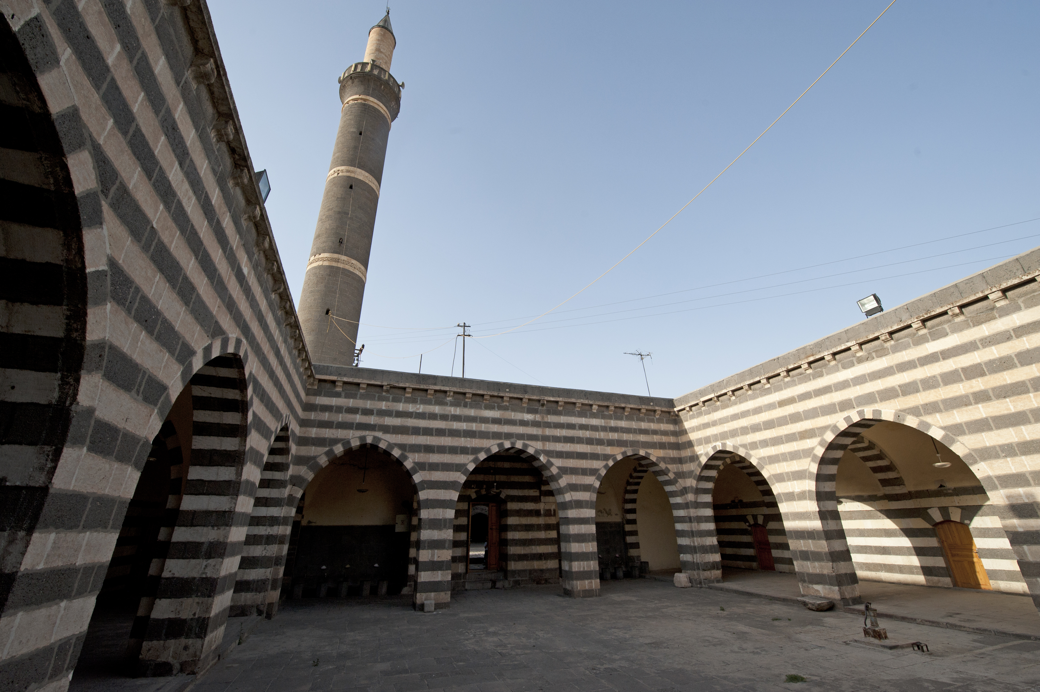 The Hüsrev Paşa Camii has been founded, according to an inscription in a stone at the south gate, by the Ottoman governor Hüsrev (1522-1558), and started out as a medrese. Its black basalt minaret was built in Selçuk style.